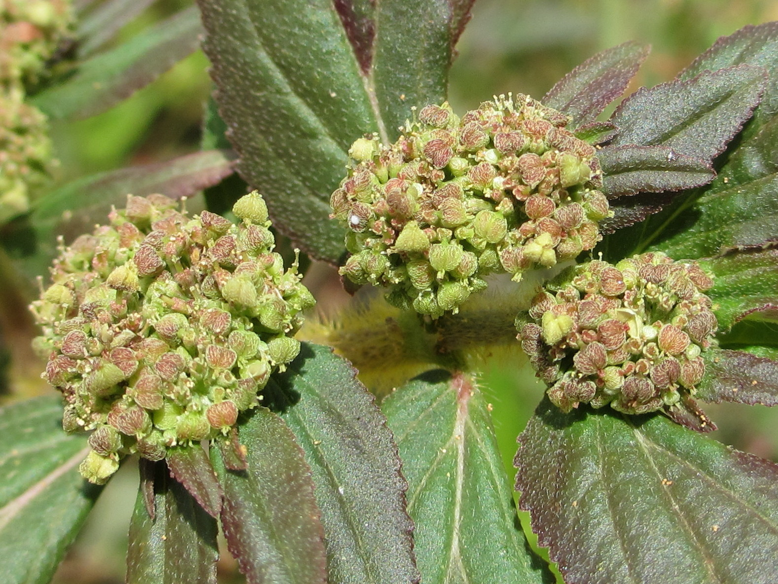 A common tropical weed. Here in Pemba town.